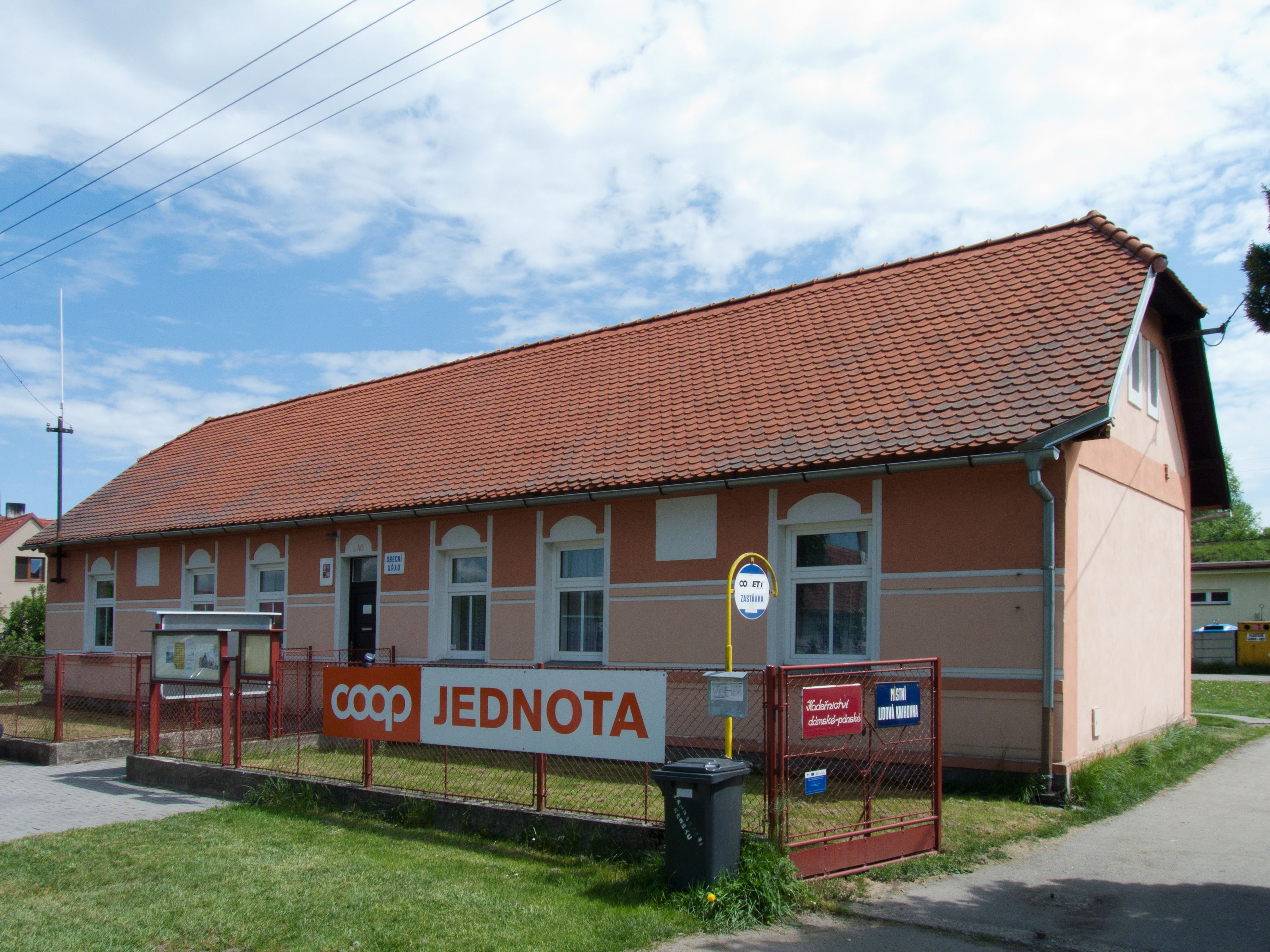 House No 46 in the village of Roudná, Tábor District, Czech Republic - the municiapl office and local library. Česky: Dům č.p. 46 v obci Roudná v okrese Tábor - obecní úřad a místní knihovna.